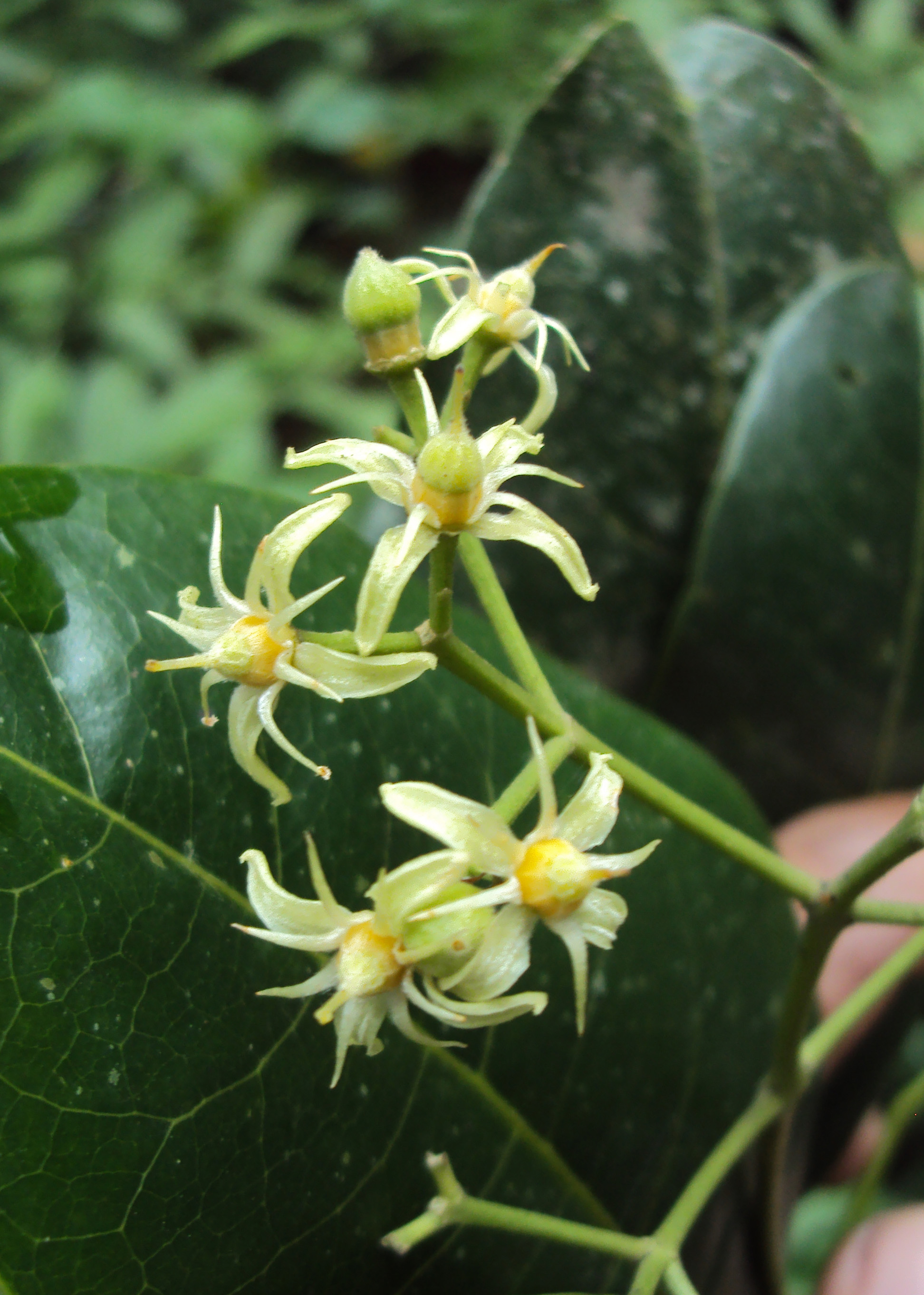 Acronychia pedunculata